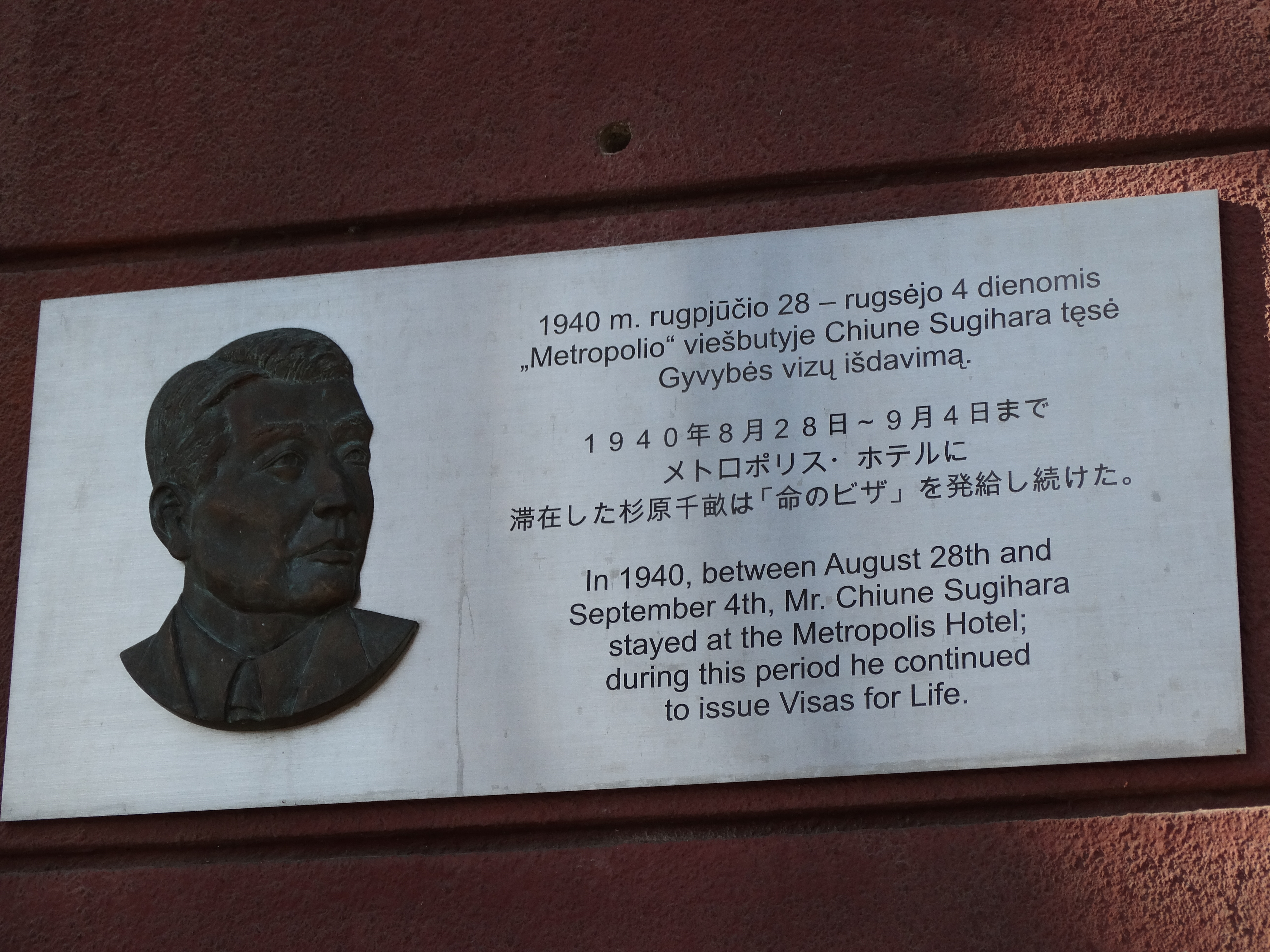 Memorial plaque to Chiune Sugihara, S. Daukanto g. 21, Kaunas, Lithuania